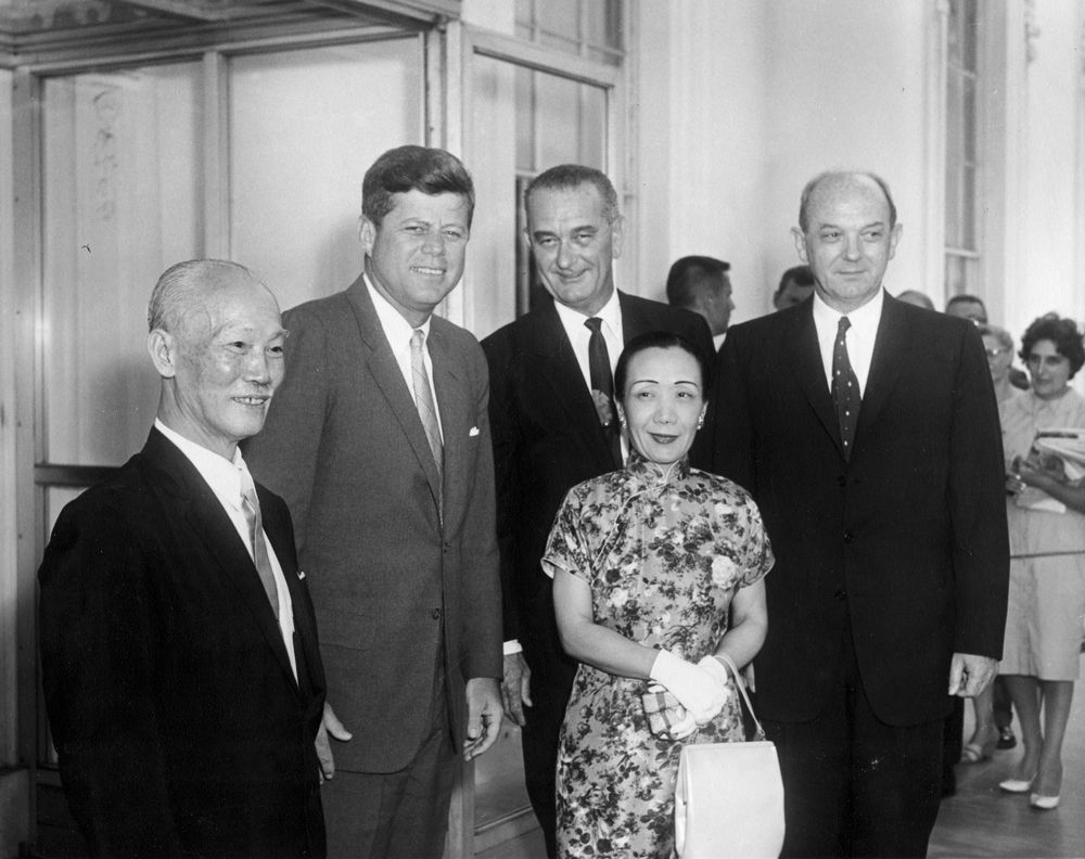 Luncheon in honor of Chen Cheng, Vice President of the Republic of China. (L – R): Vice President Chen; President John F. Kennedy; Vice President Lyndon Johnson; Tan Xiang, wife of Vice President Chen; Secretary of State Dean Rusk; various reporters in the background, including White House correspondent for United Press International (UPI) Helen Thomas (far right). North Portico, White House, Washington, D.C. Physical Description